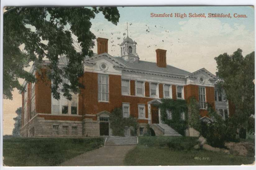 Postcard: Stamford High School in Stamford, Connecticut, 1910 Description: "K547 Stamford Connecticut Conn CT 1910" store's name of item